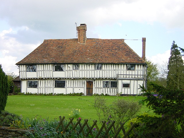 Norwood Farmhouse near Wormshill, photographed by Penny Mayes